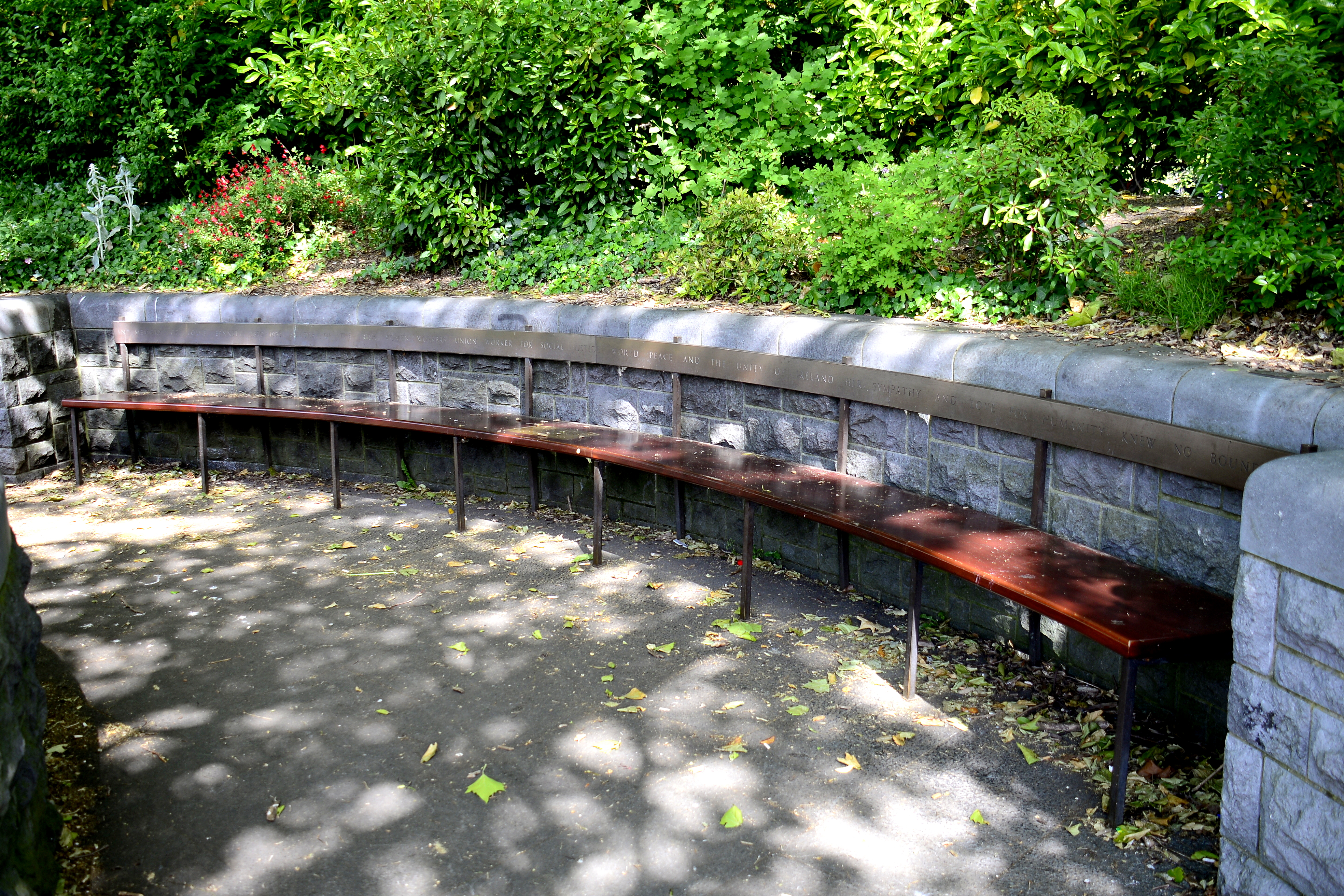 This memorial (lunar-shaped seat) is at the St. Stephen's Green Park, Dublin, Republic of Ireland. Helen Chenevix (1888-1963) was a life-long friend of Louie Bennet (1870-1965) and shared the same high ideals.